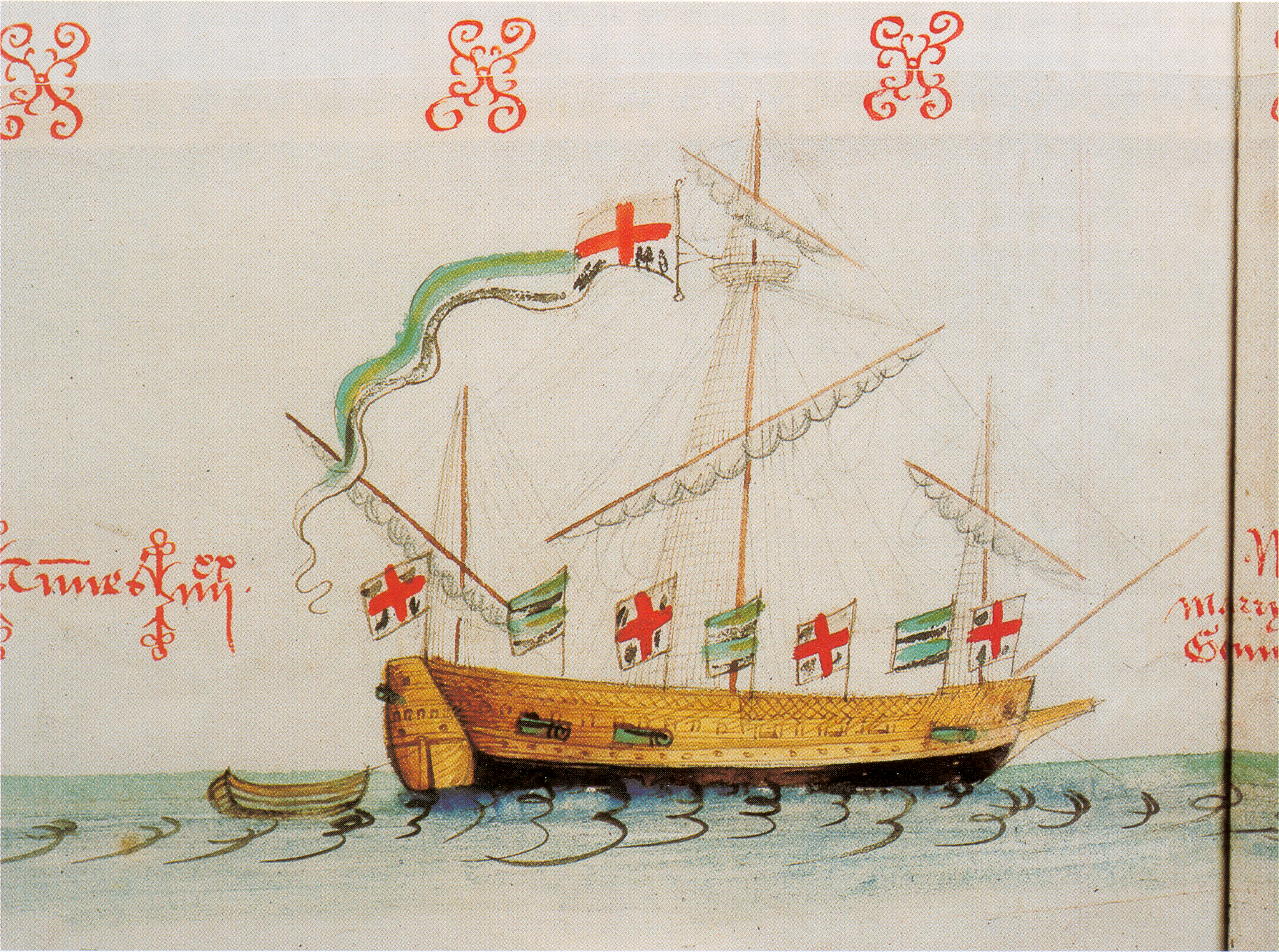 Illustration of the pinnace Hind. Notification about possible deletion Cathsuth (talk) 16:19, 9 February 2017 (UTC)